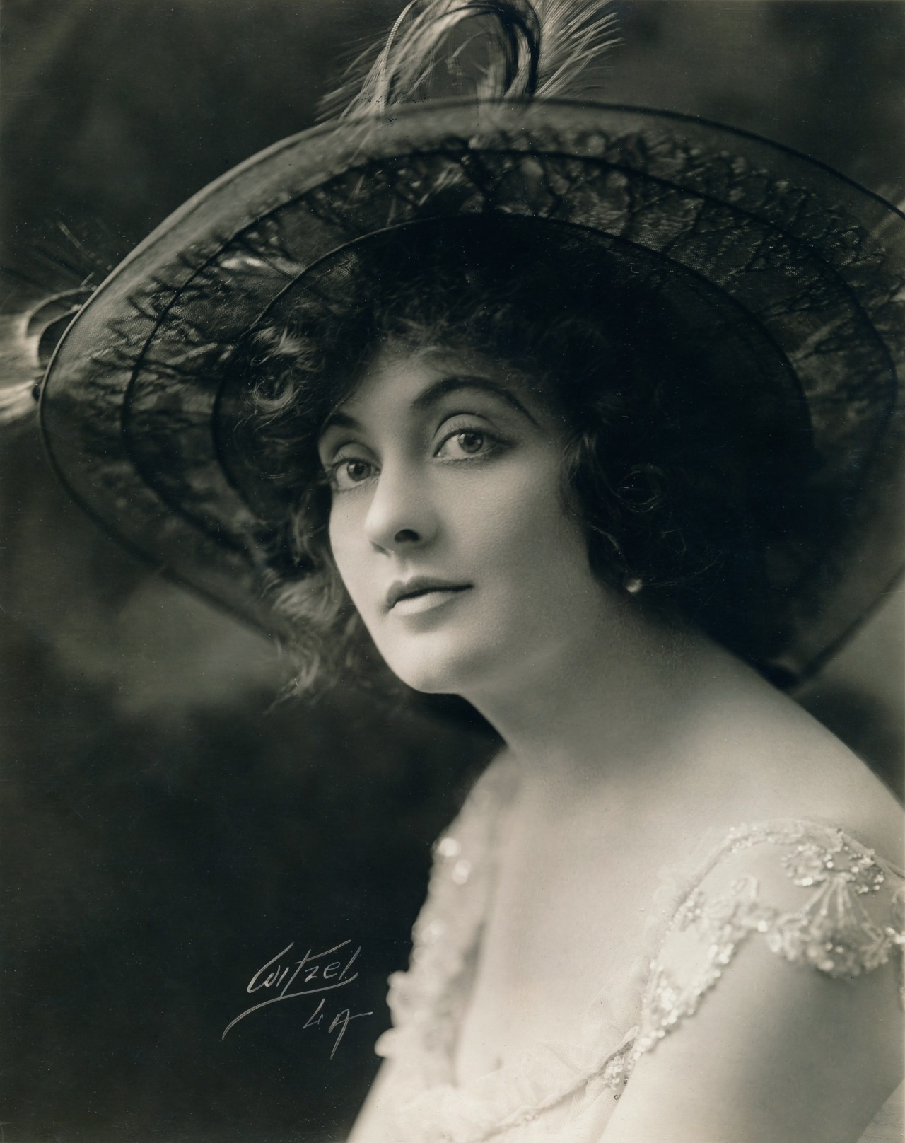 Portrait of American actress Marin Sais (1890–1971) by Albert Witzel (Witzel Studios, L.A.)